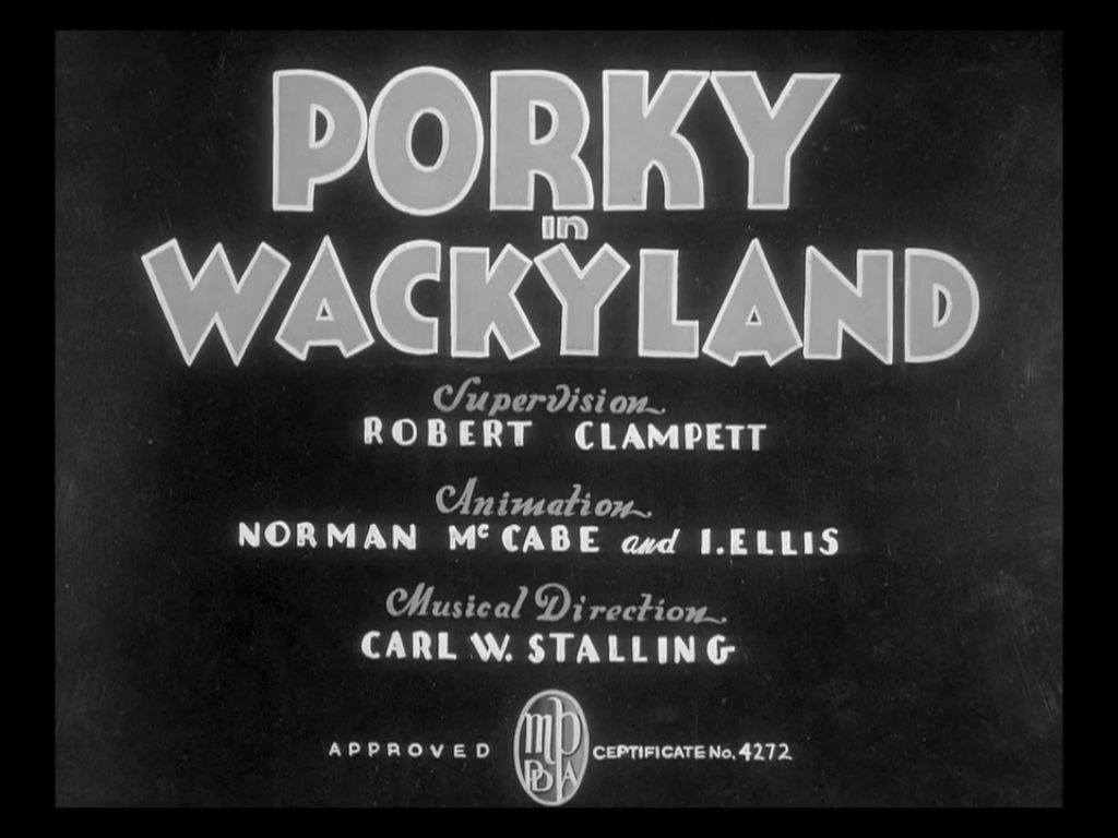 Title card from the short Porky in Wackyland